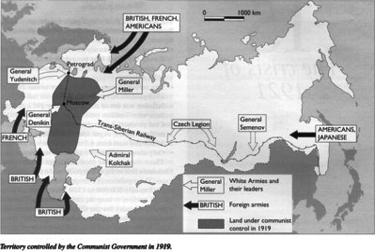 map made for a project at slavic studies, amsterdam, course 'russian history' drawn by myself after several sources